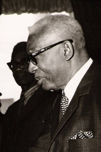 Haitian president F. Duvalier greets David Tercero Castro, a Guatemalan ambassador who ultimately served as the ambassador of Guatemala to Haiti.